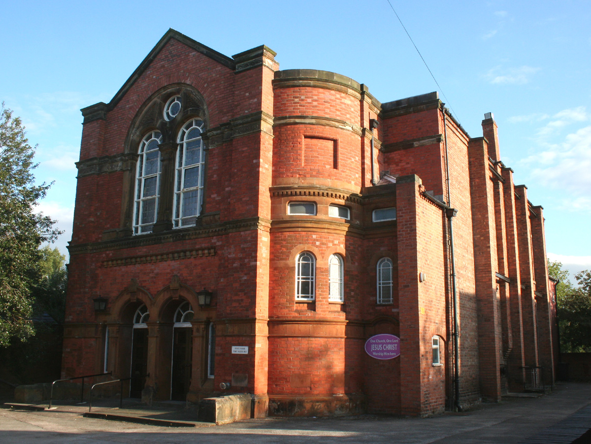 Methodist Church, Hospital Street, Nantwich, Cheshire